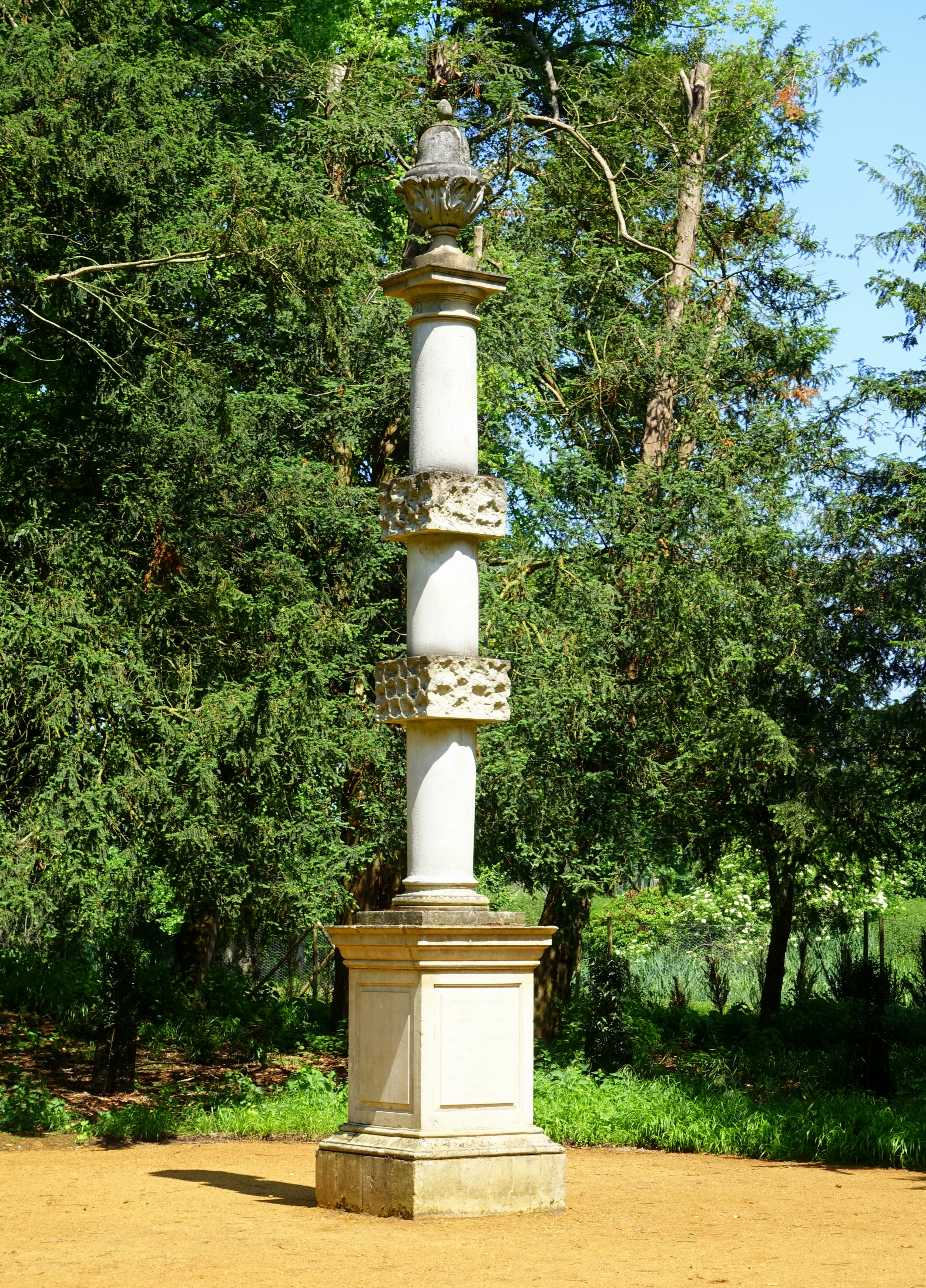 Lancelot Brown monument - Wrest Park - Bedfordshire, England.